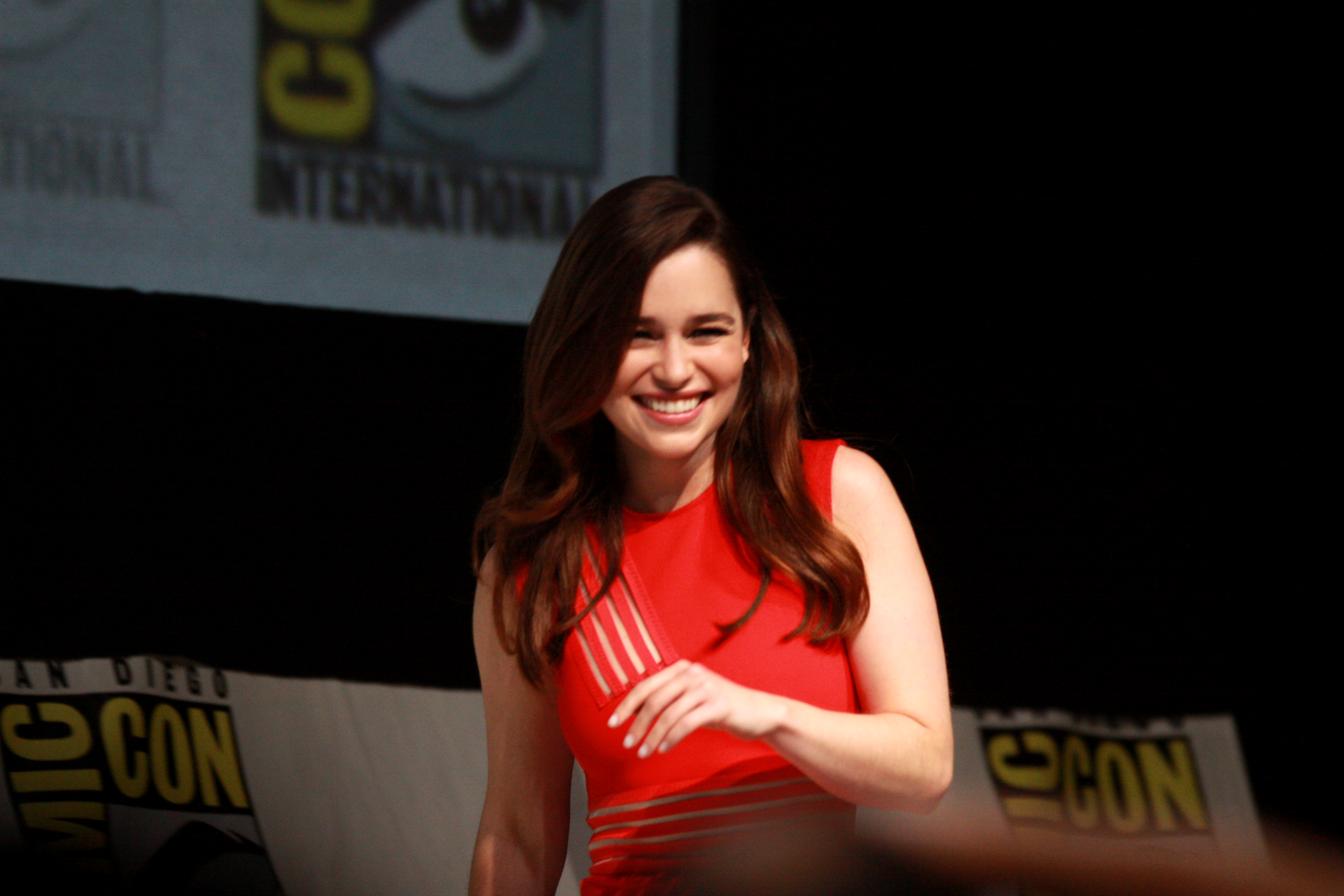 Emilia Clarke speaking at the 2013 San Diego Comic Con International, for "Game of Thrones", at the San Diego Convention Center in San Diego, California.